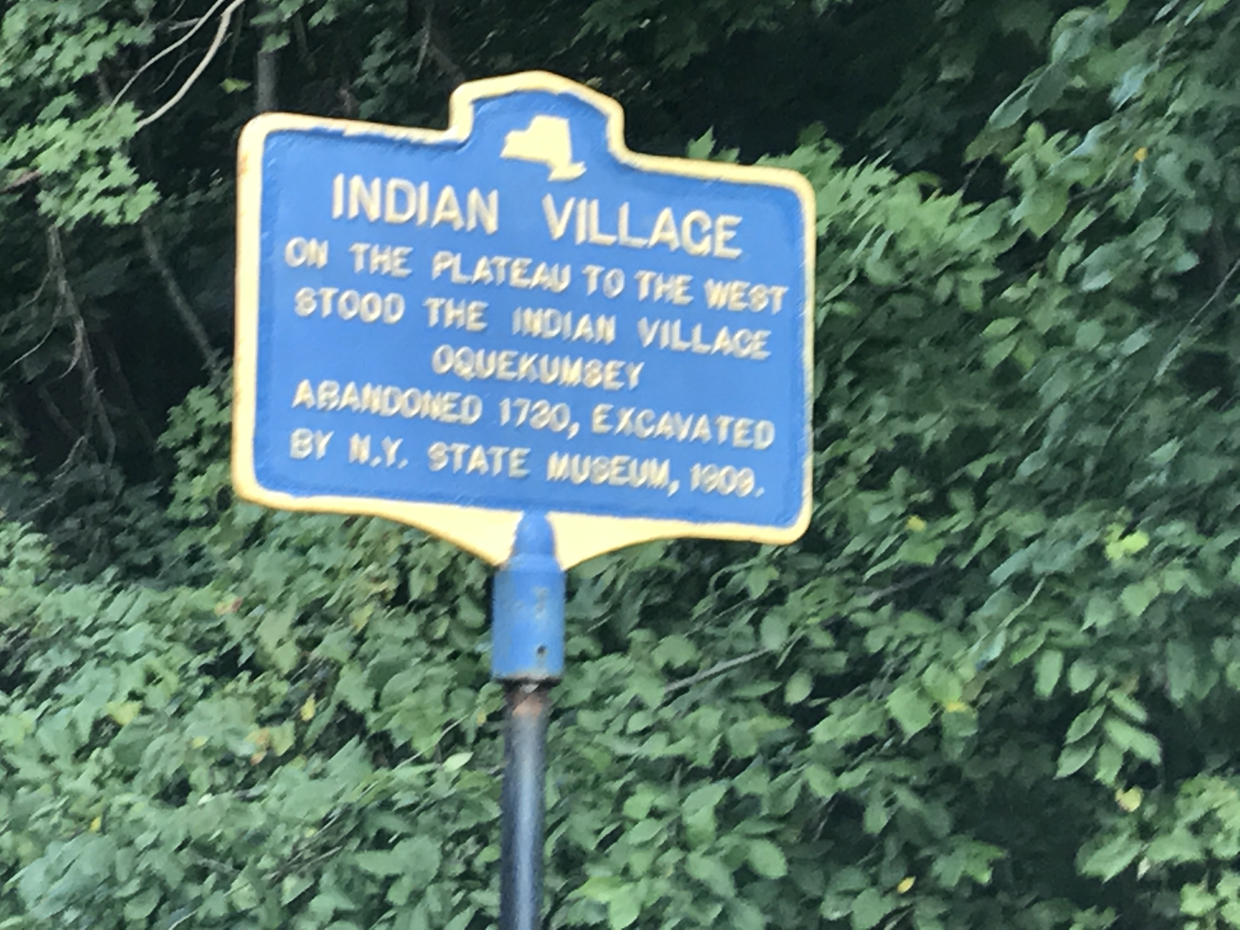 Historic marker on Neversink Drive re site of Indian Village, Town of Deerpark, Orange County, New York. Orange County CR80. NOT related to attack of 1779.